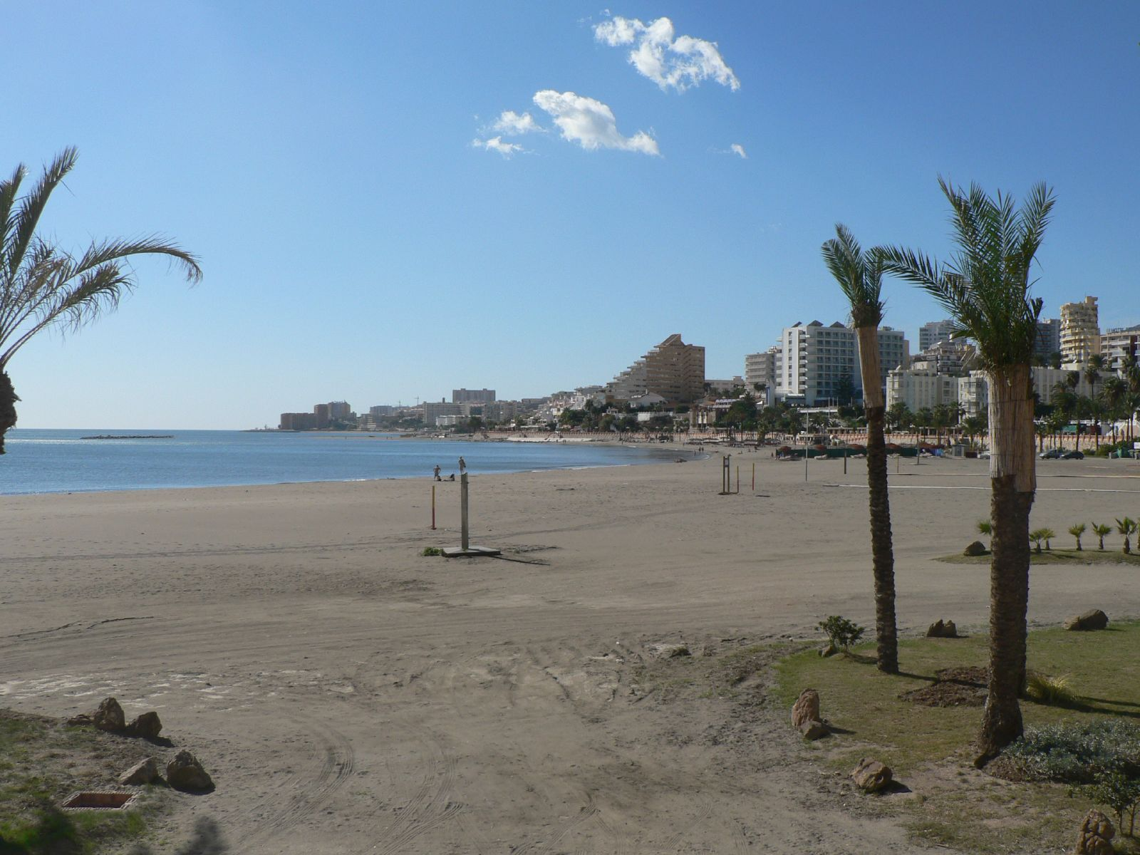 Beach in Benalmádena, Málaga, Spain